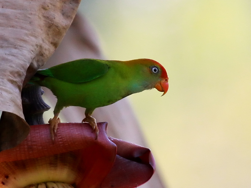 Sri Lanka Hanging Parrot (Loriculus beryllinus) at Sinharaja Forest Reserve